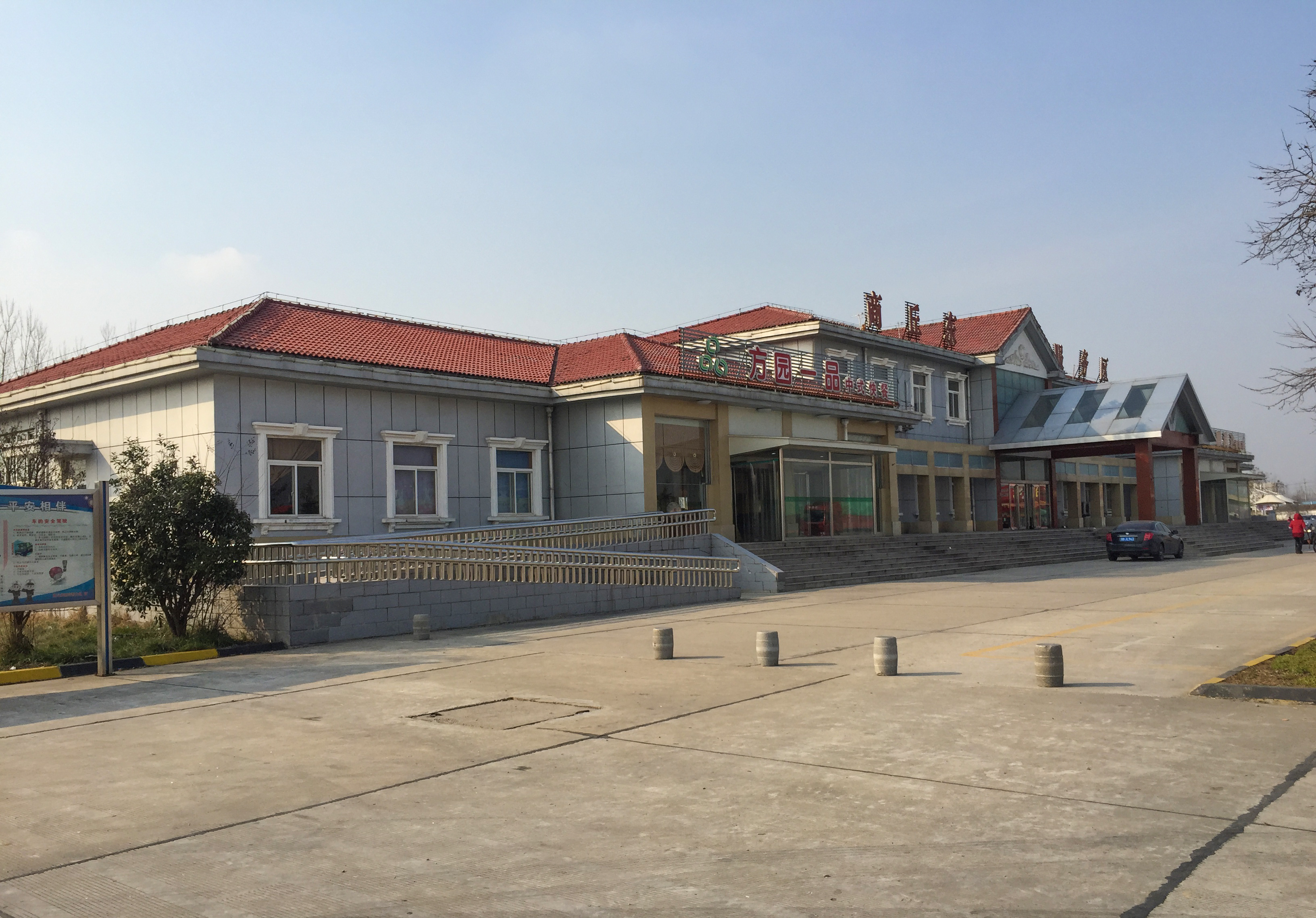 Like Beijing-Kowloon Railway, G35 also enters Shangqiu for less than 100km. Hebei and Henan uses ethanol fuel...